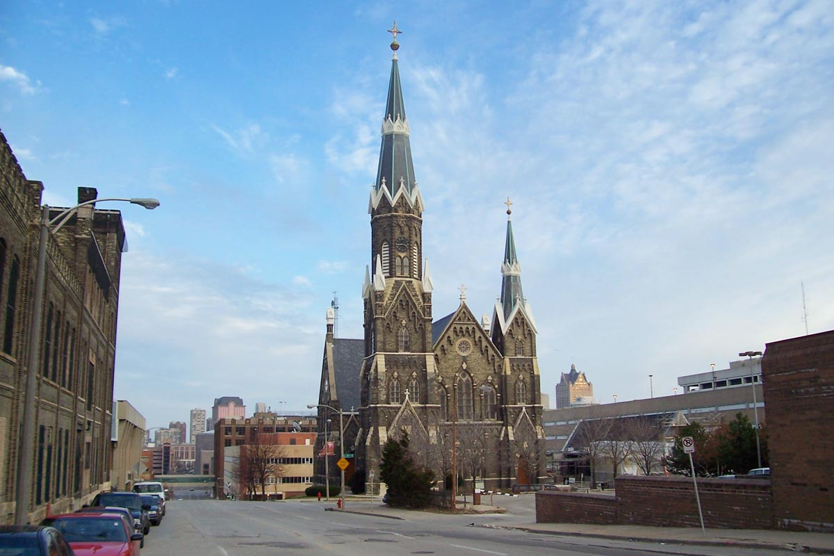 Copyright © 2006 Sulfur Trinity Evangelical Lutheran Church, located next to the historic Pabst Brewery complex in downtown Milwaukee, Wisconsin.